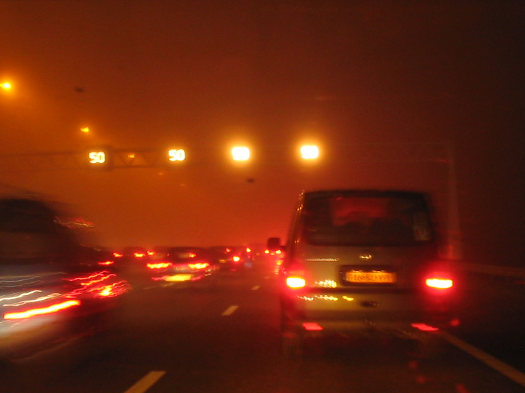 Dutch road during fog conditions